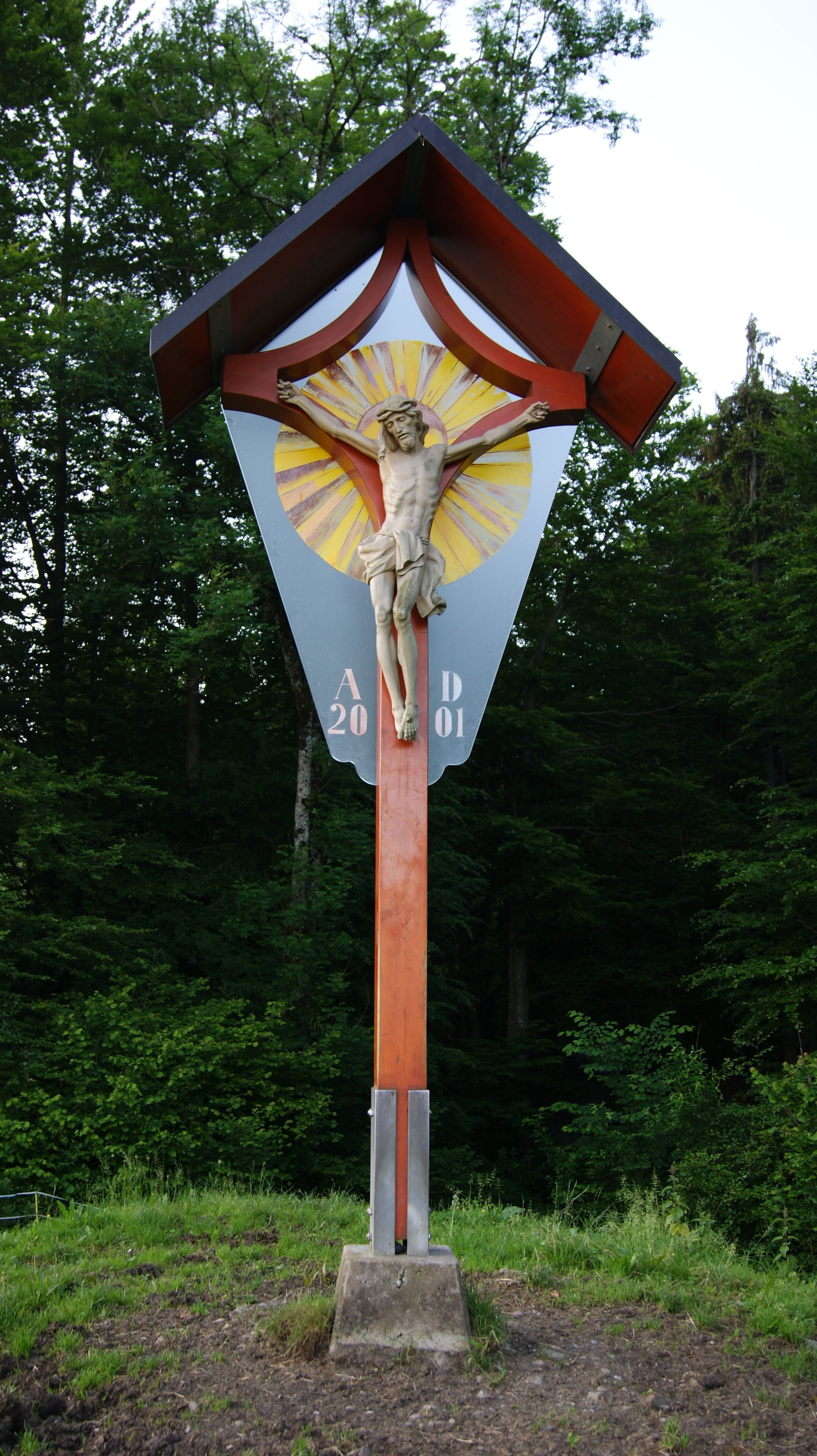 Wayside cross in the plot Bürgle in Dornbirn, Vorarlberg, Austria.